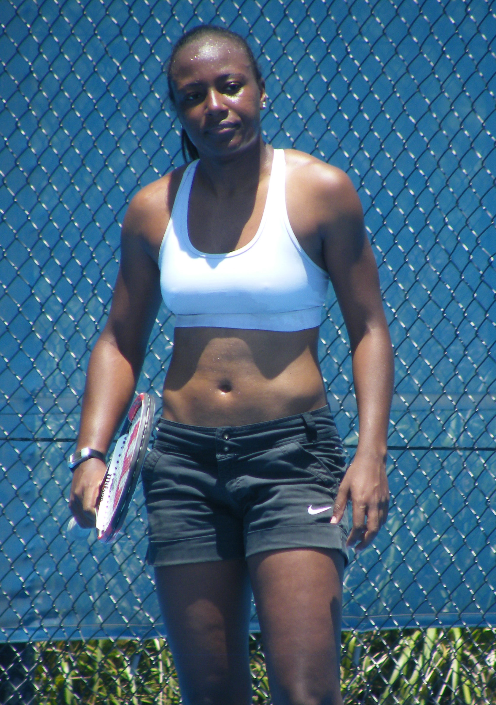 Shenay Perry at the 2010 Medibank International, Sydney.